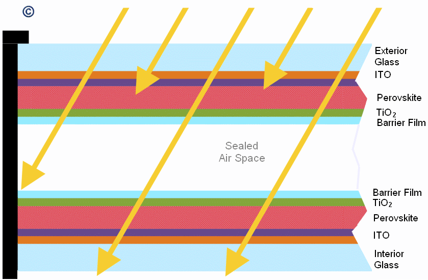 An Image that shows Transperant Tandem DSC on Glass as will be produced by Dyetec Solar